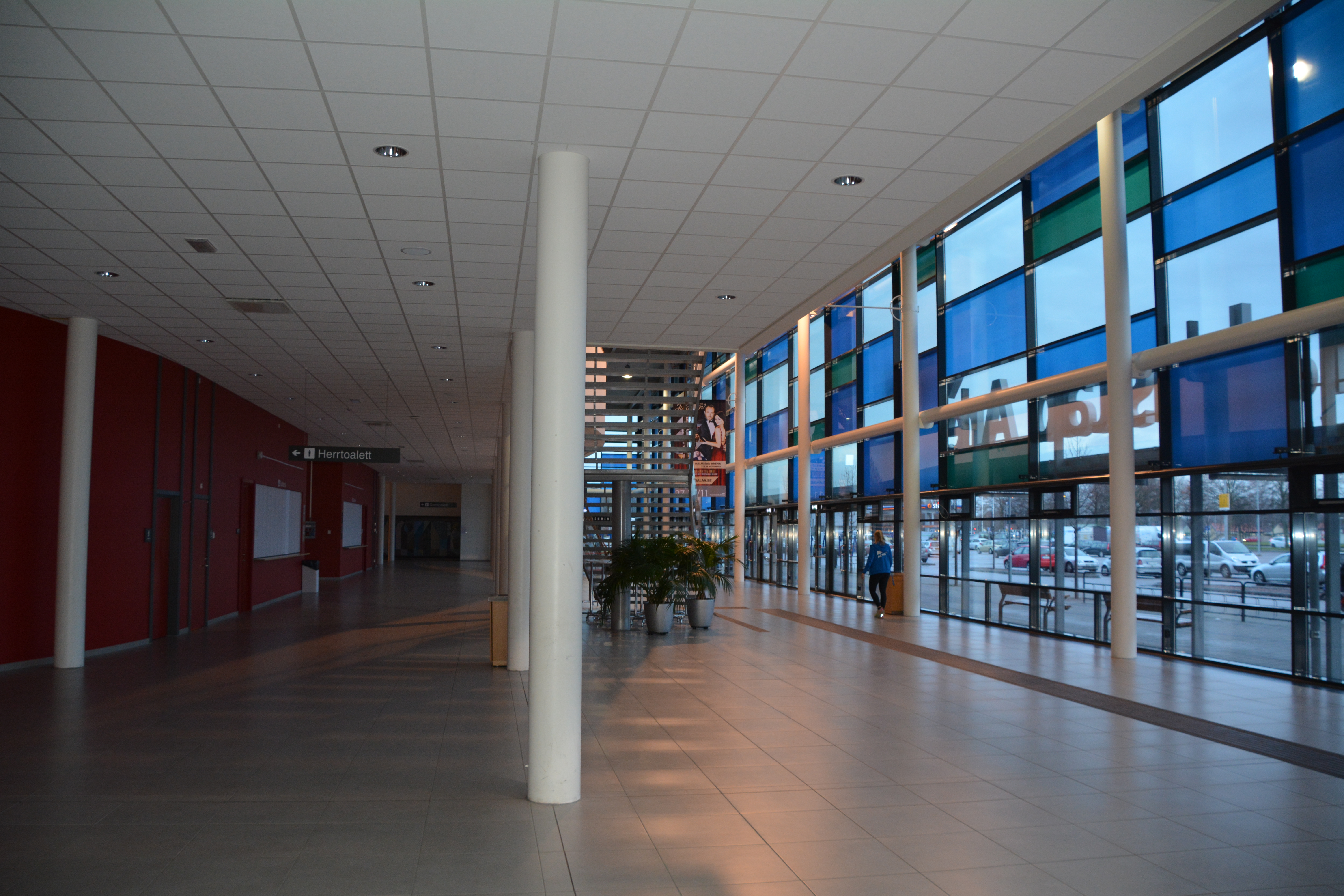 Foajén i Halmstad Arena